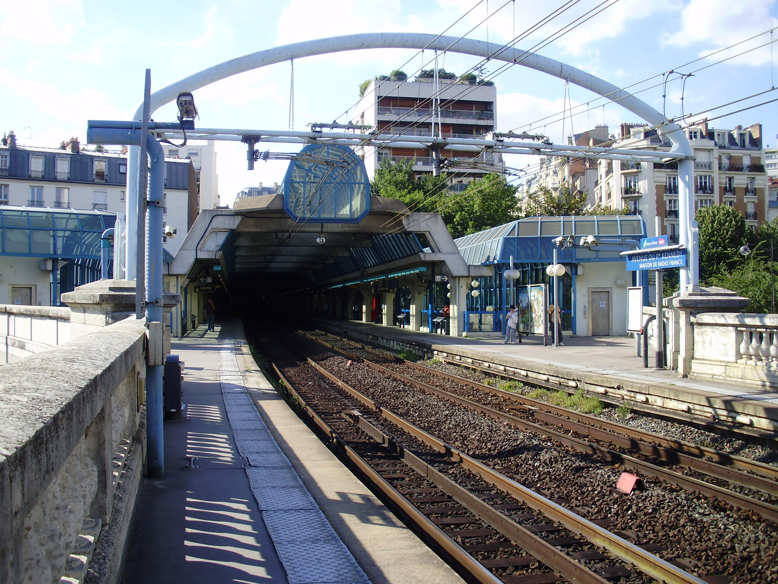 Avenue du Président Kennedy station, in Paris 16e arrondissement, France (entrance in an underground section of the RER C line in the north-west of Paris)